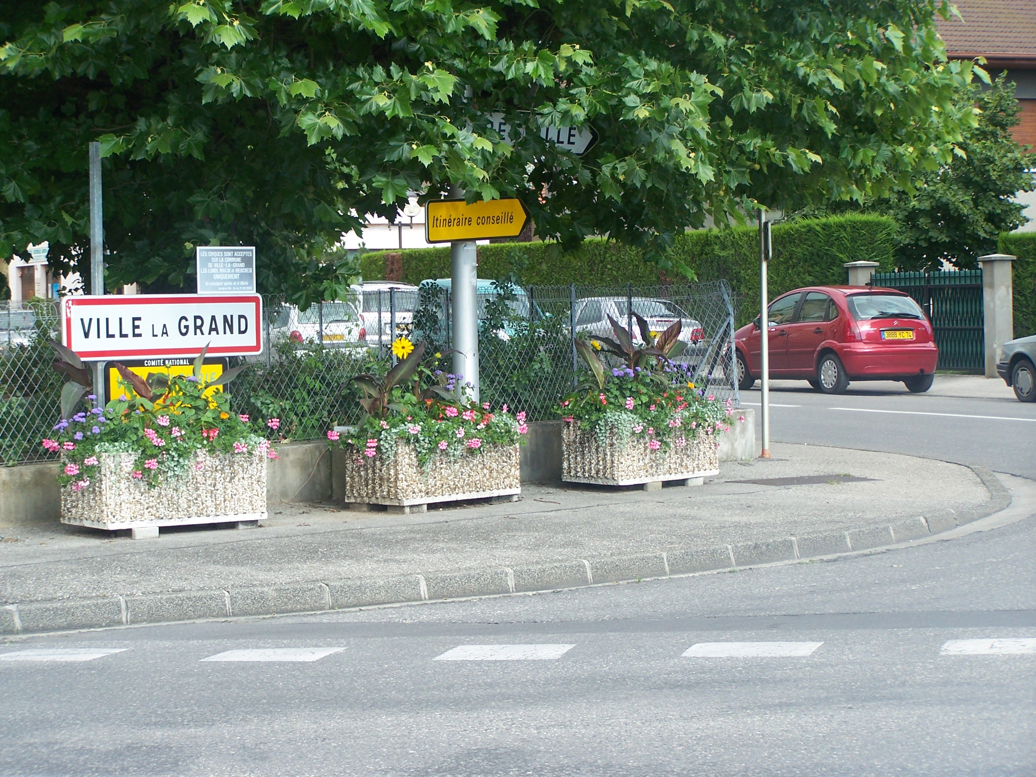 Sign welcoming visitors to the French city of Ville-la-Grand, in the department of Haute-Savoie.